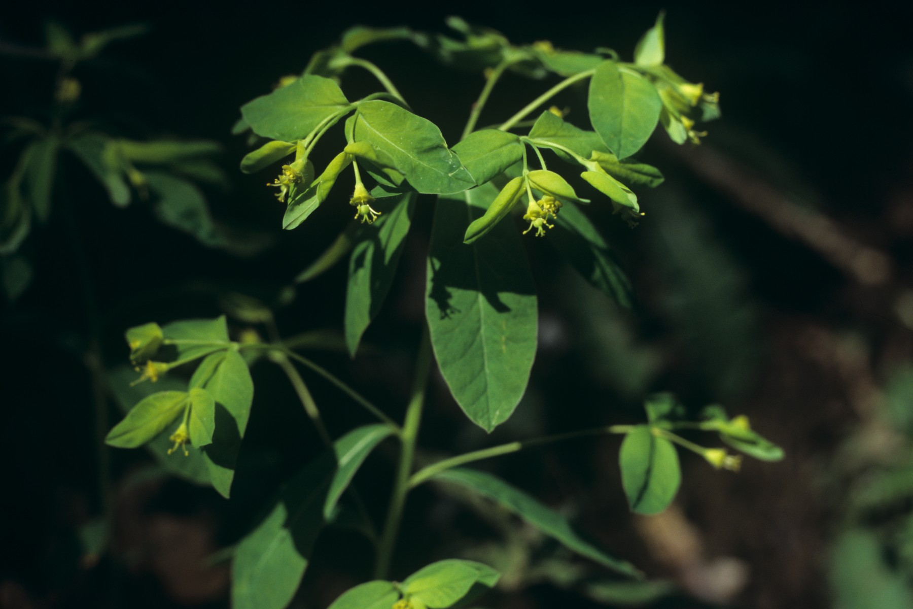 Euphorbia carniolica Jacq. Zagon, Slovenia